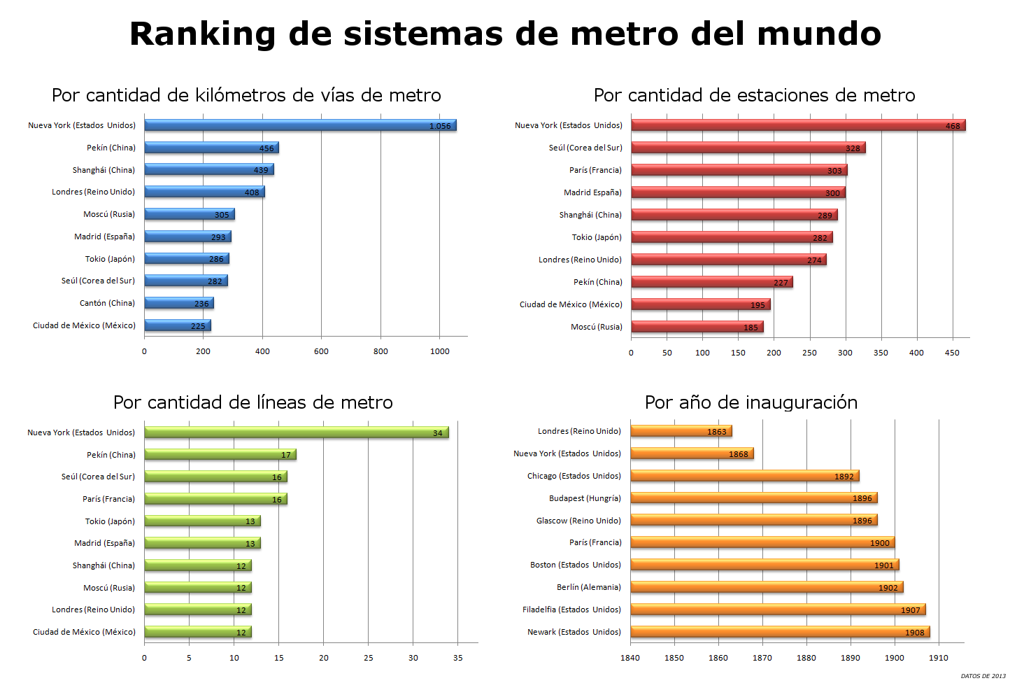 Ranking of metro systems in the world: sort by miles of track, by number of stations, by number of lines and by year of opening.